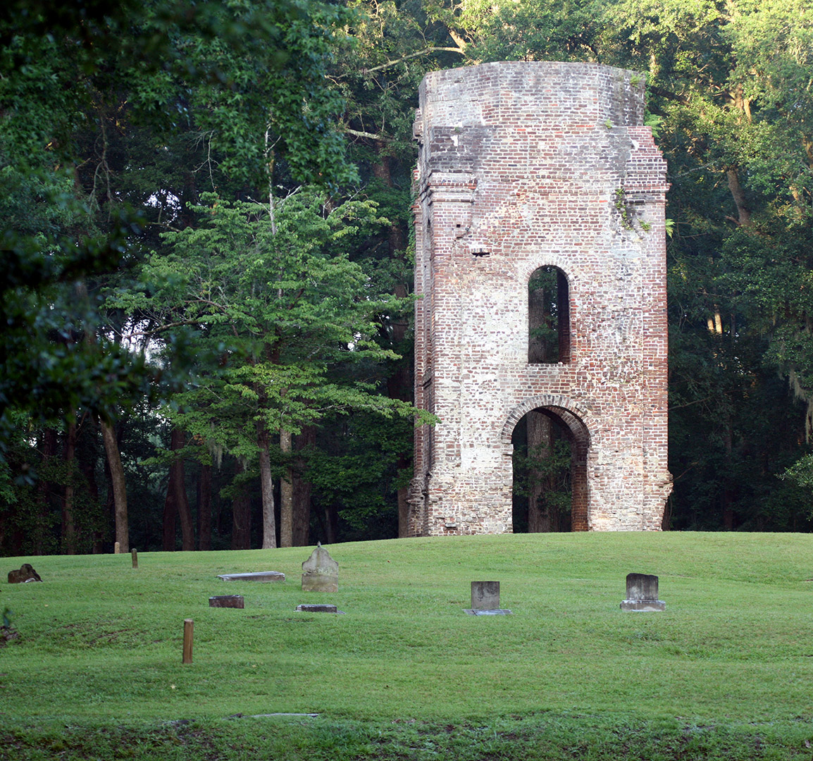 Old Dorchester Church Ruins in Old Dorchester